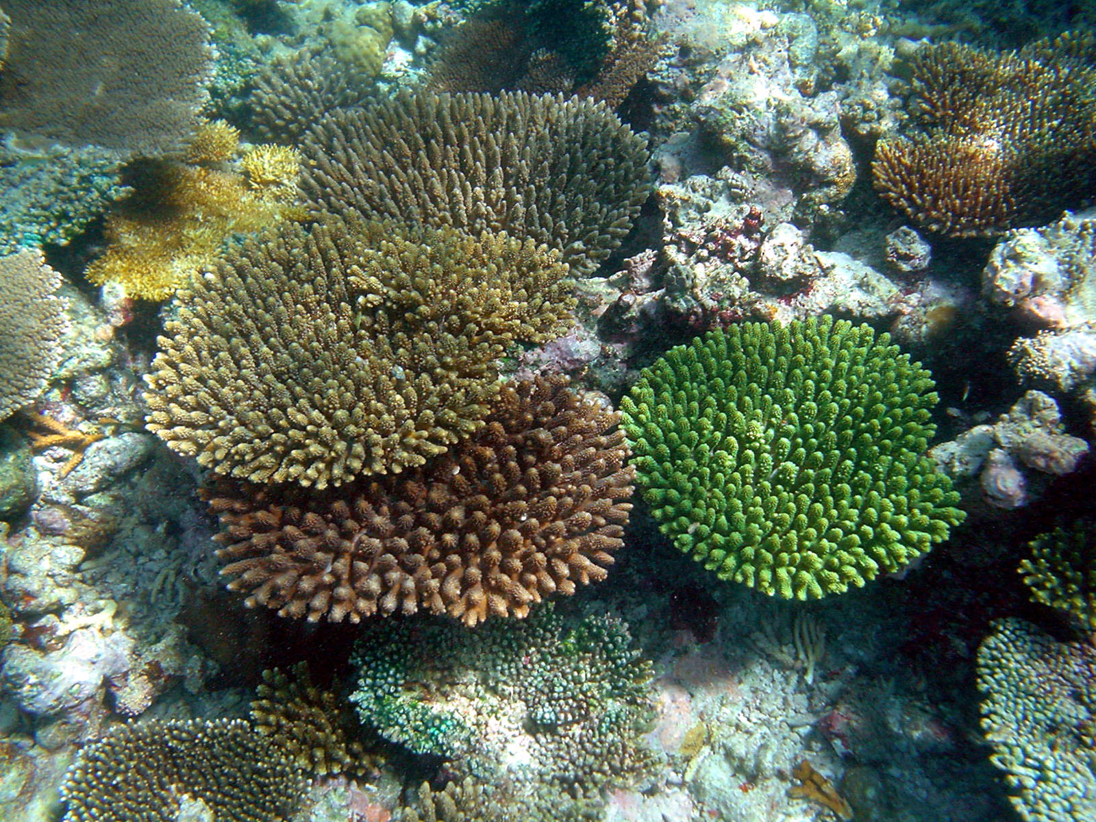 Image of corals from the Maldivian island of Madoogali showing a clear recover ongoing from 1998 coral bleaching.